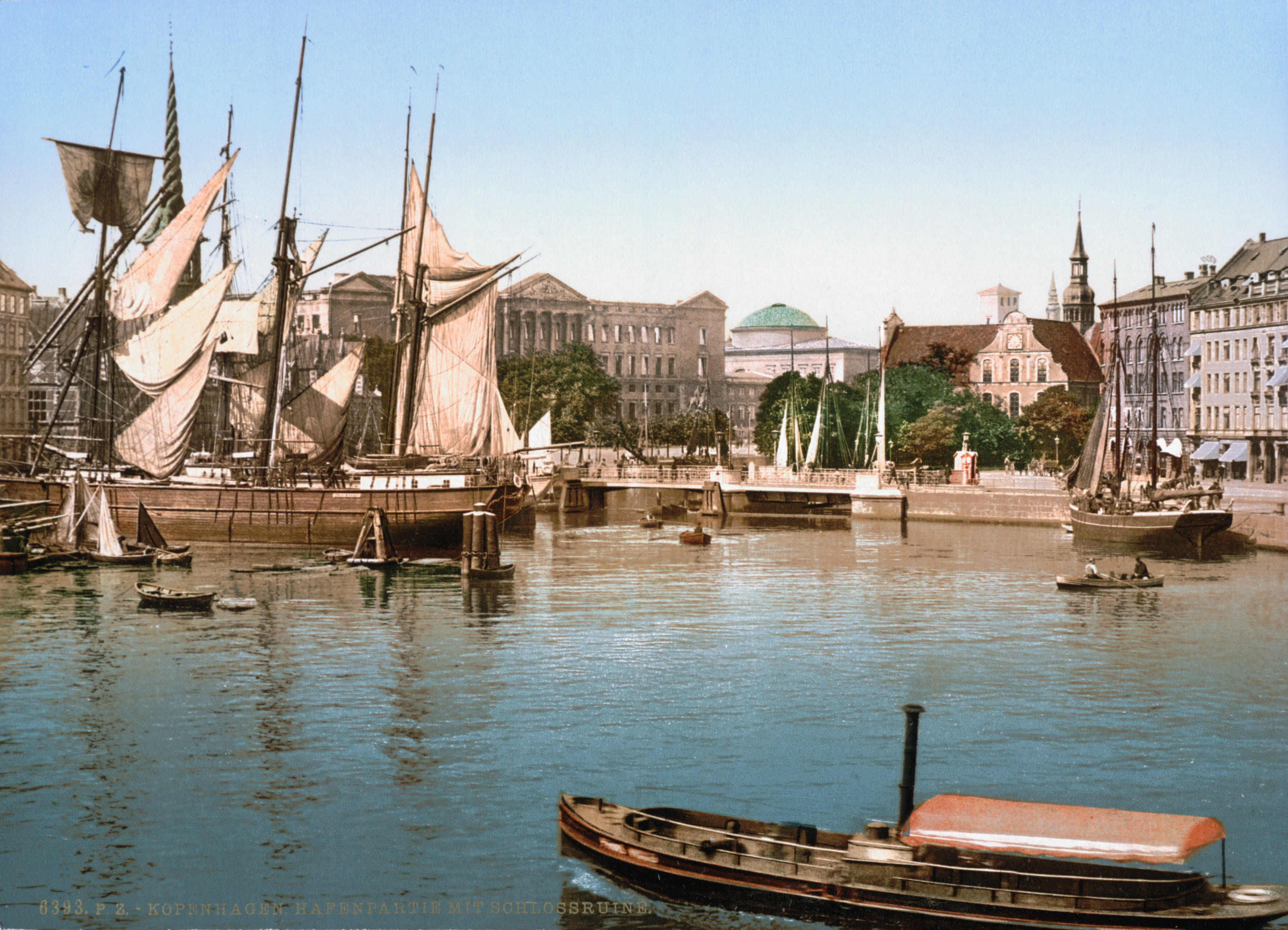 The ruin of Christiansborg Castle, with embankment, Copenhagen, Denmark, between ca. 1890 and ca. 1900.